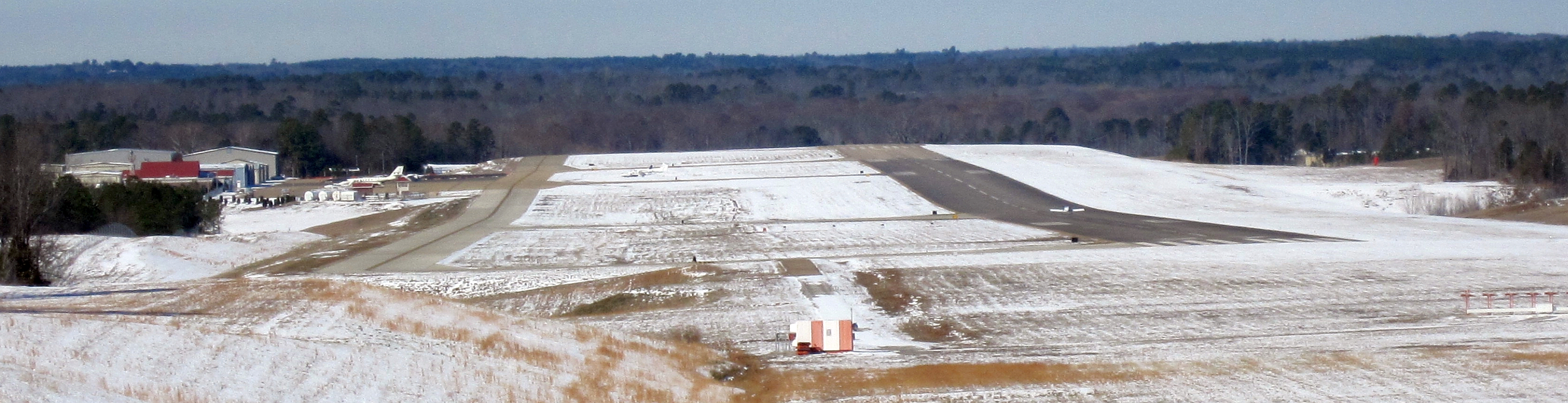 KUOX - University-Oxford Airport, Mississippi.